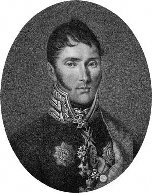 Sir James Wylie Bt. (1768–1854), Head and shoulders, front pose, wearing uniform with decorations and medals.